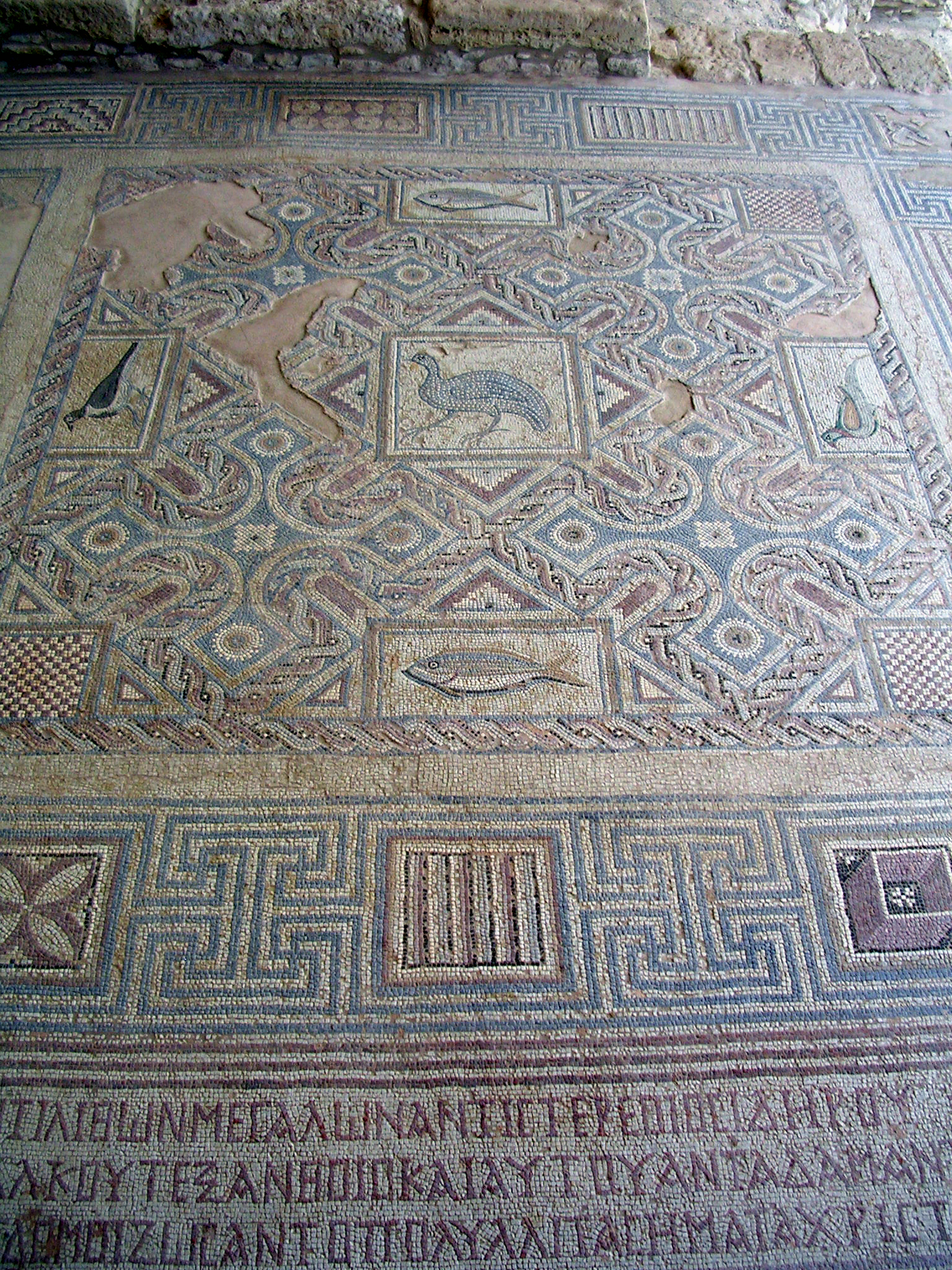 Mosaic from the house of Eustolios, Kourion Cyprus. Inscription : " IN PLACE OF BIG STONES AND SOLID IRON, GLEANING BRONZE AND EVEN ADAMANT, THIS HOUSE IS GIRT WITH THE MUCH-VENERATED SIGNS OF CHRIST ". [1][2]